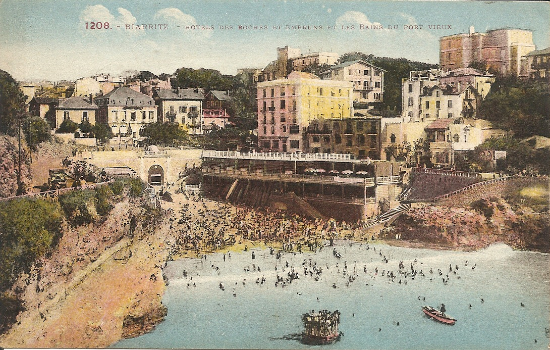 Hôtel des Roches & Embruns and the baths of the Port-Vieux of Biarritz (Pyrénées-Atlantiques, France).